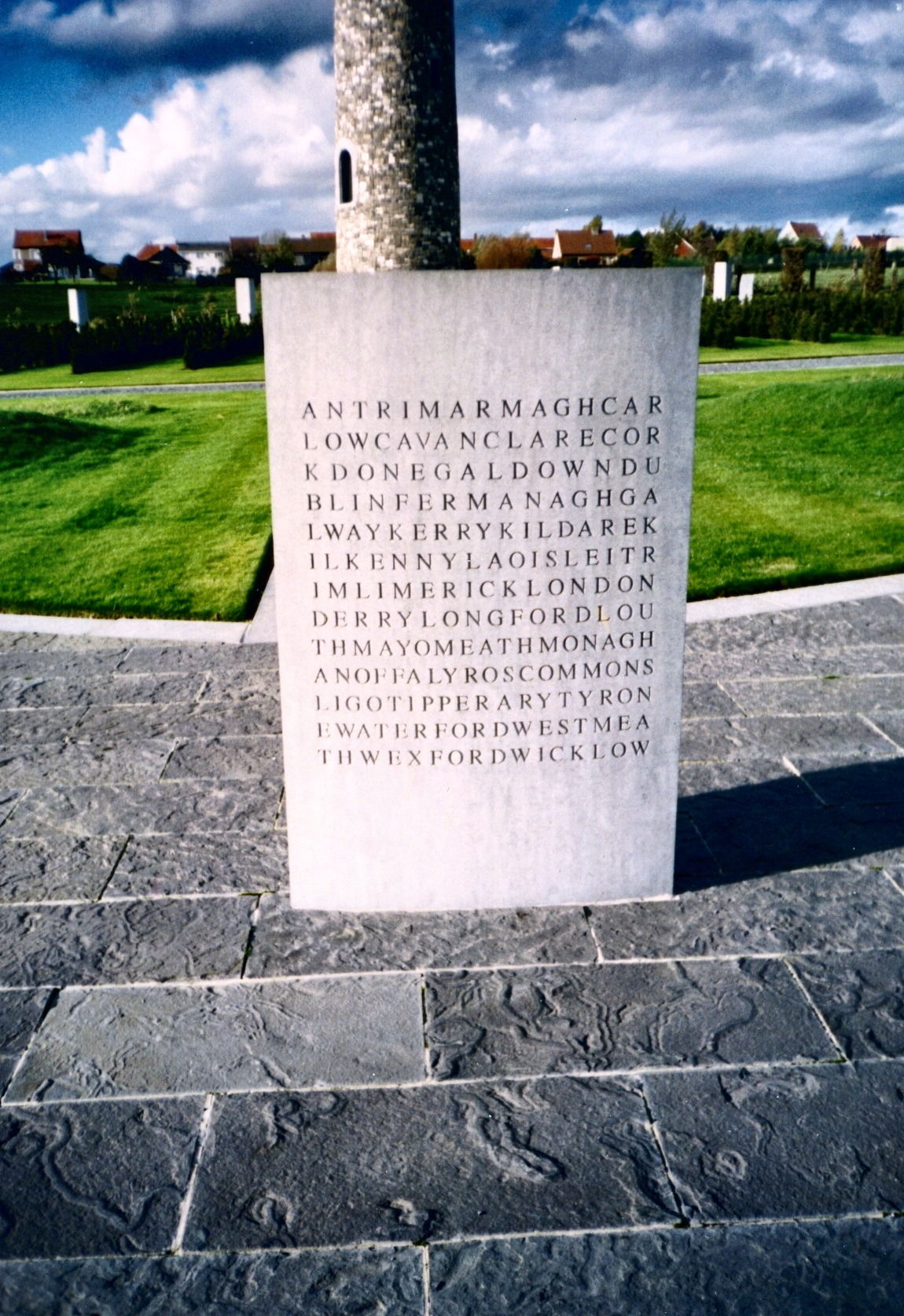 Stone tablet beside the Irish Peace Tower in Flanders, Belgium, listing the counties of the island of Ireland symbolically run together. Photograph by User:Redvers originally from wikipedia, now transferred to Commons. Note that the photograph has been altered by the author since the original upload and that the licence status has changed from Own Work GDFL to the more explicitly free Own Work Public Domain All Rights Released.